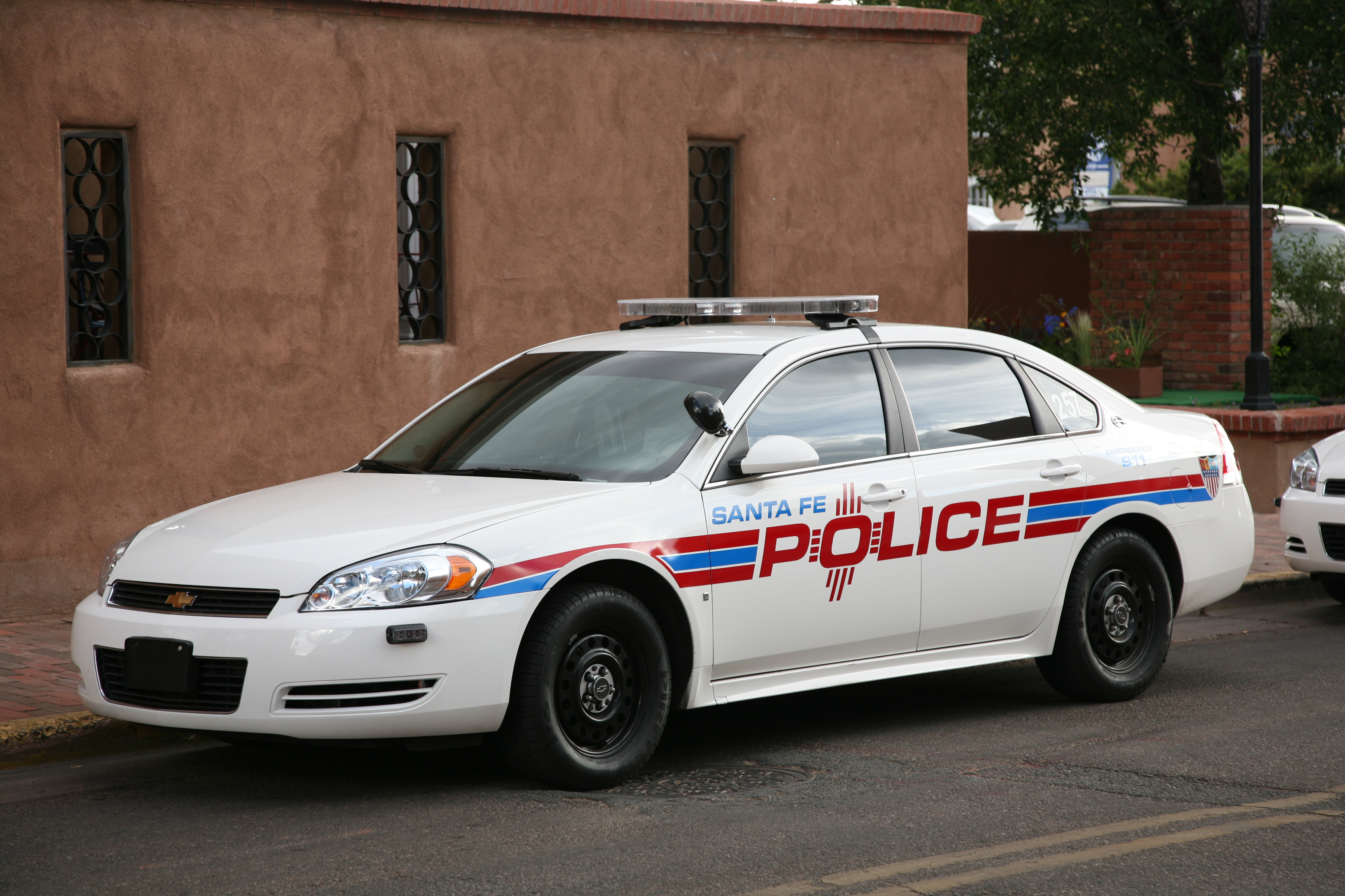 Police cruiser in Santa Fe, New Mexico